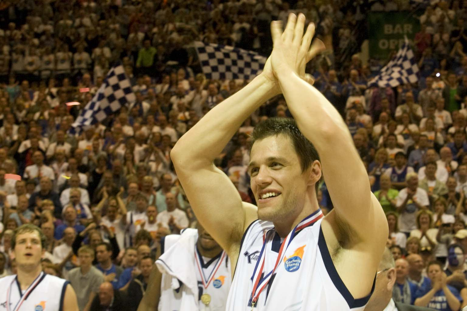 Steve Ross celebrating winning the Eredivisie title in 2010.